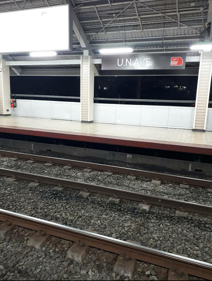 A concourse and platform of United Nations LRT station